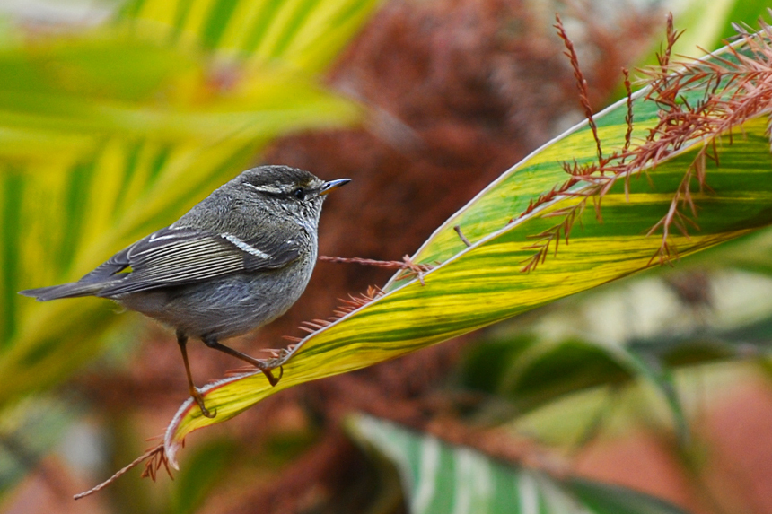 Phylloscopus inornatus (Yellow-browed Warbler). Picture taken in Tsing Yi Town, New Territories, Hong Kong, SE China.